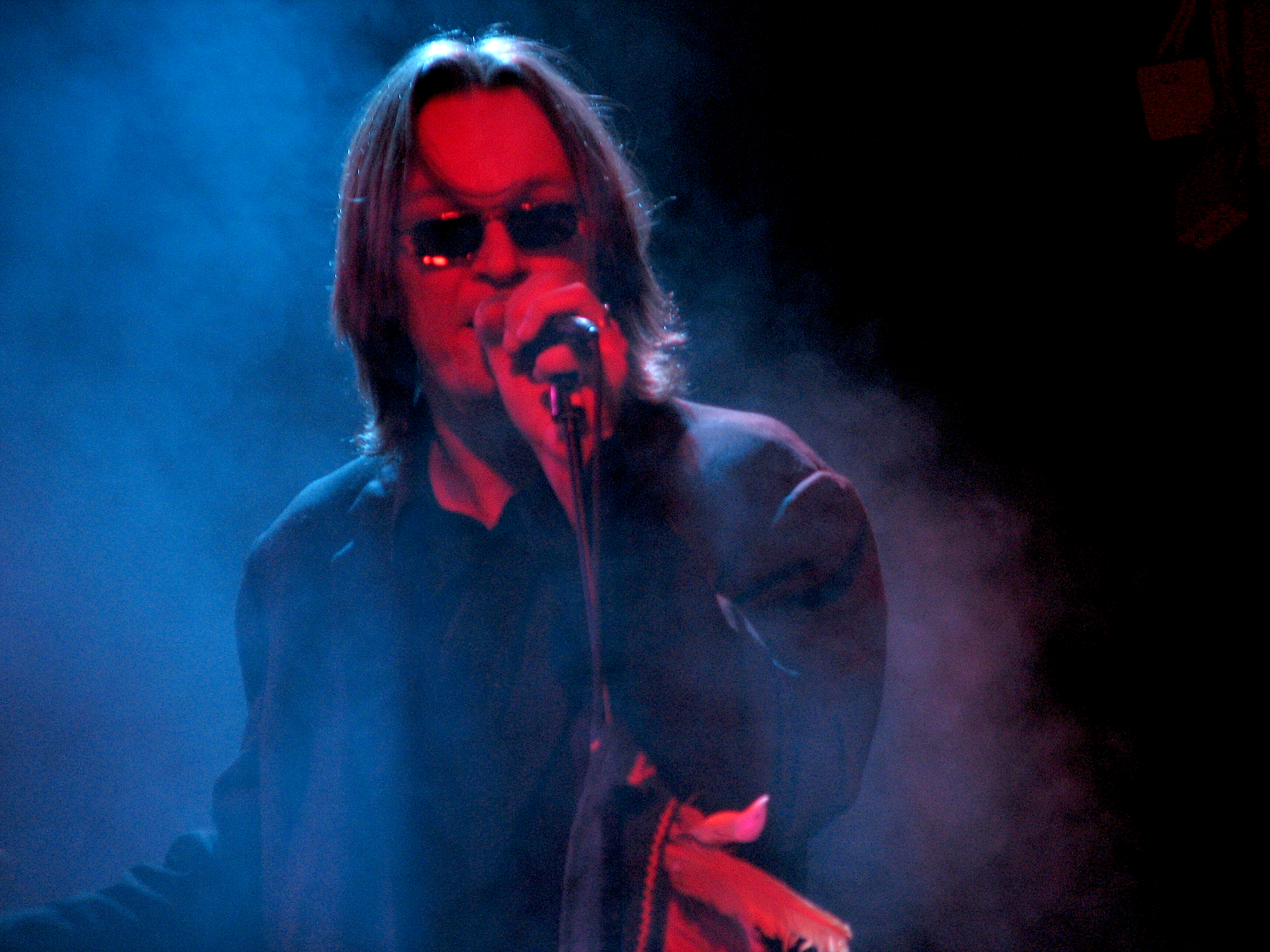 Jyrki Mäki performing w/ Jolly Jumpers @ Nosturi, 2006/01/28